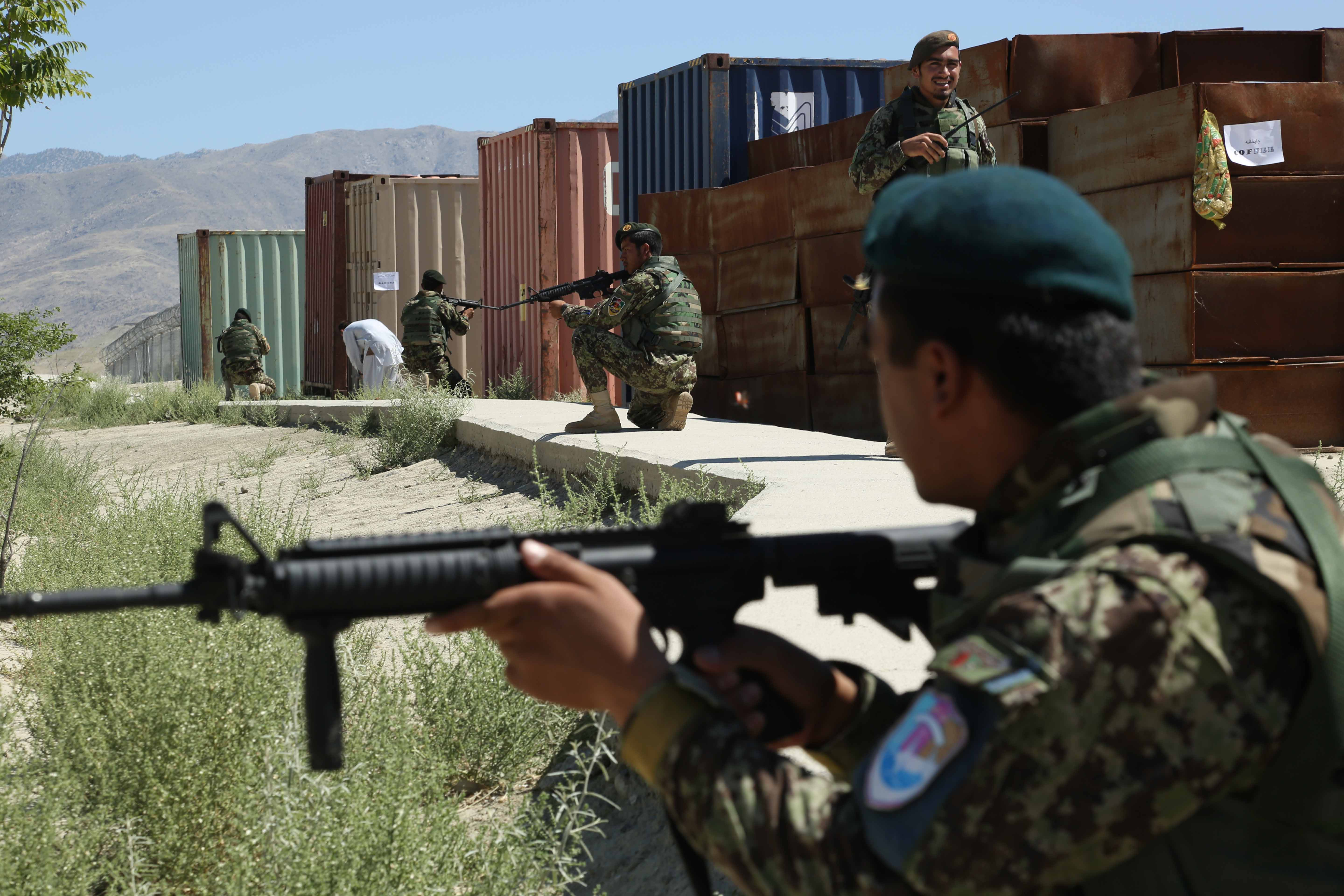 Afghan National Army soldiers with the 201st Corps provide security during a foot patrol training exercise at Forward Operating Base Gamberi, Laghman province, Afghanistan, May 29, 2013.